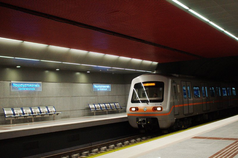 GREECE: A northbound Rotem train of Attiko Metro (Athens Metro) entering Nomismatokopio station.